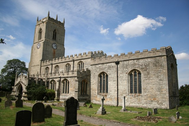 St.Peter's church, East Drayton. Mostly 15th century Perpendicular with only a brief mention of East Drayton's most famous son inside. Celebrated architect Nicholas Hawksmoor was born here in 1661 and educated at Dunham Grammar School.